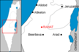 Localization of Rahat within Israel.